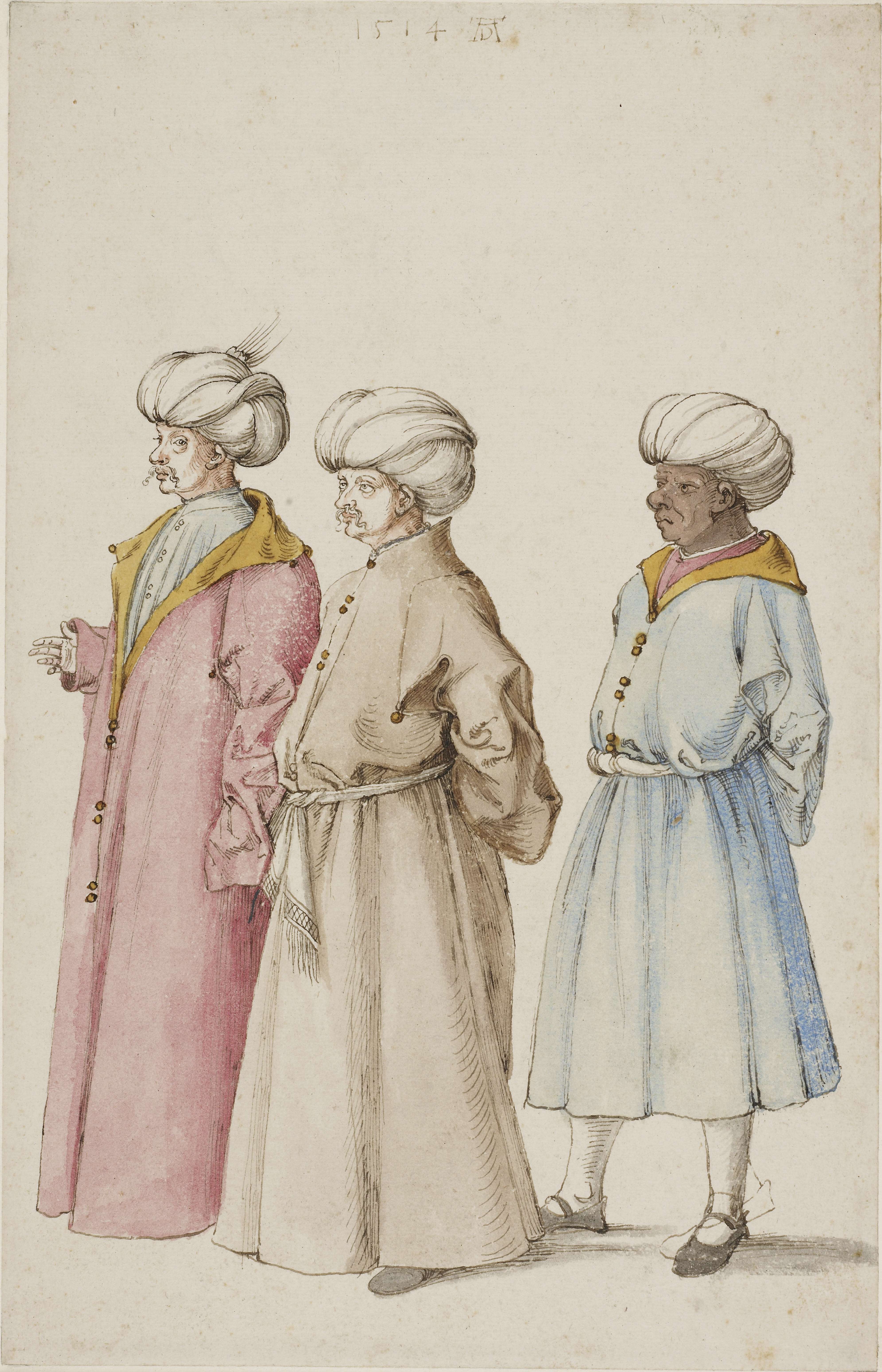 Turkish people and a slavelabel QS:Len,"Turkish people and a slave" label QS:Lfr,"Deux Turcs de haut rang et leur esclave noir"